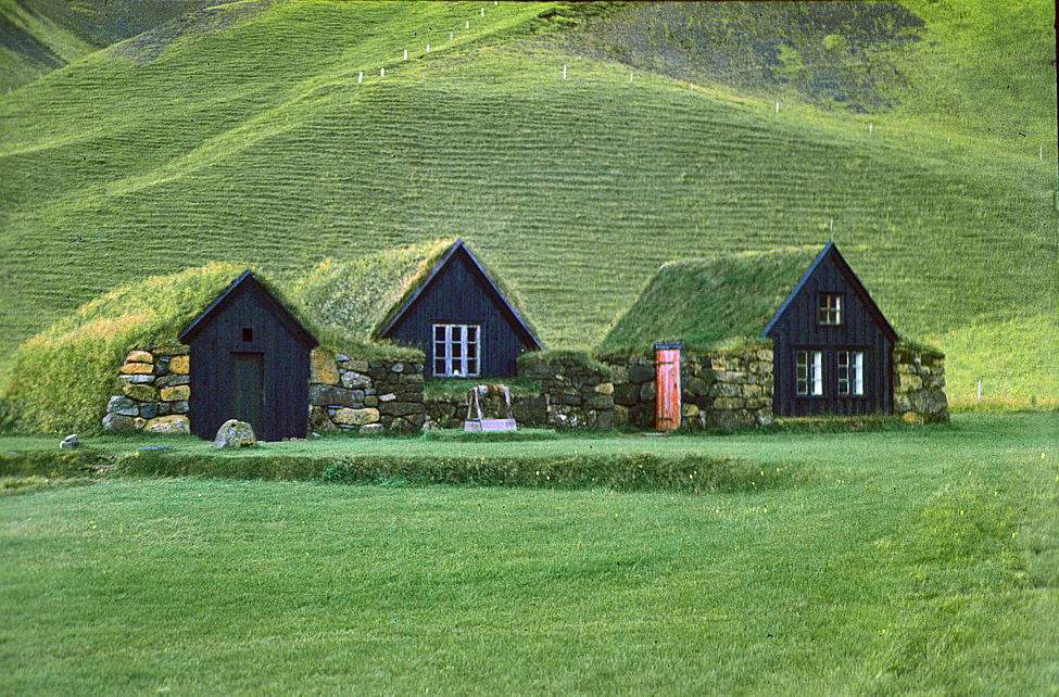 Turf-roofed house in Iceland (Skógar)